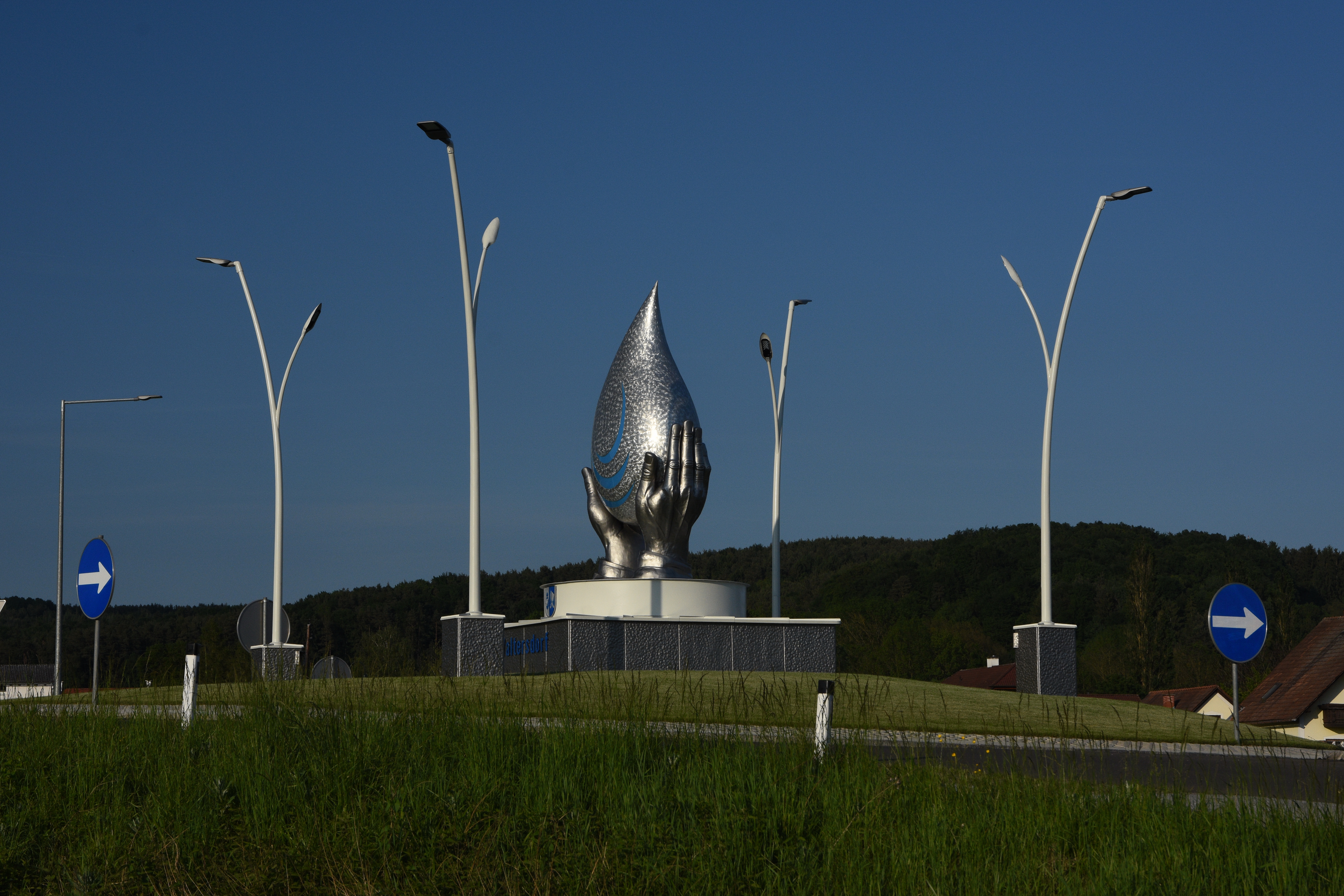 Roundabouts in Styria Bad Waltersdorf